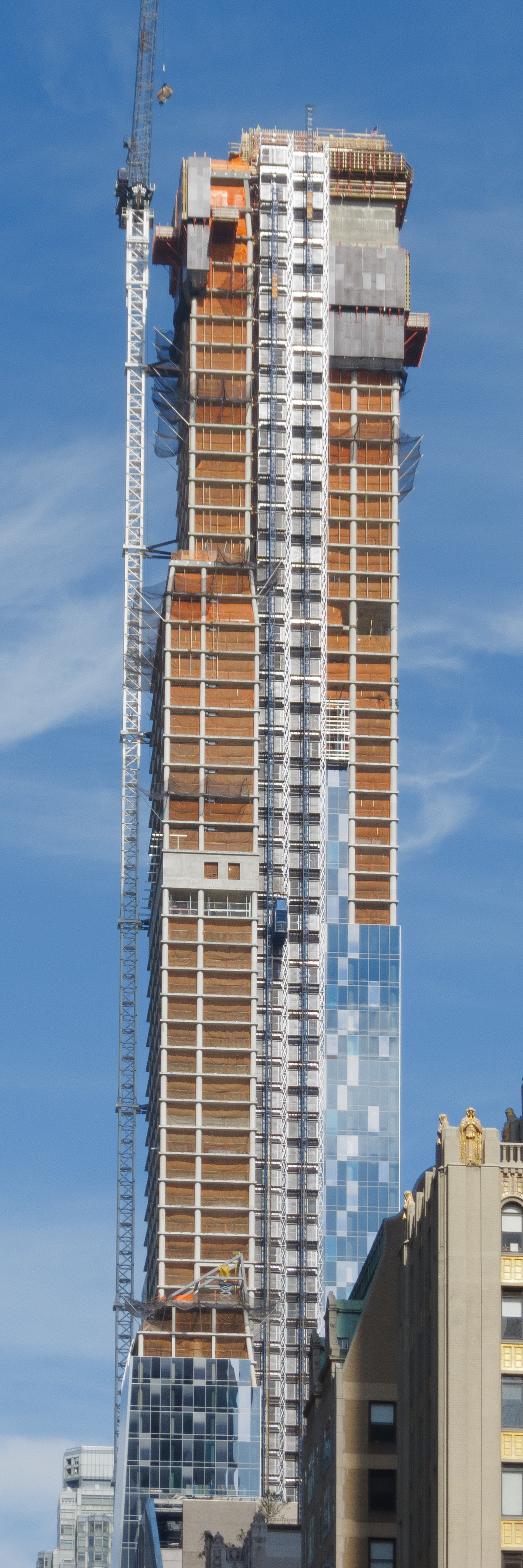 One57, to be one of the tallest buildings in Midtown Manhattan, New York City, nearing completion.